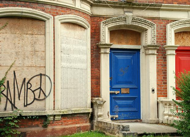 No 21 College Gardens, Belfast (1). See 1508212. The well-bolted door of no 21 - one of the four seen in the previous photo. Continue to 1508260.